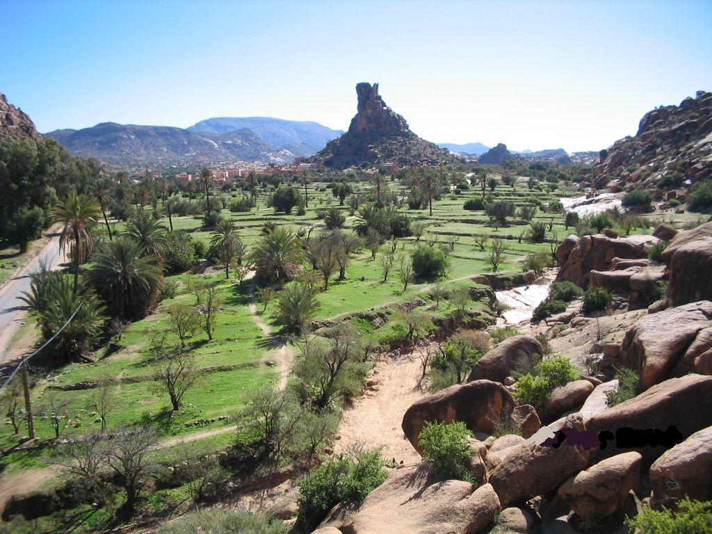 Tafraout, city in Morocco